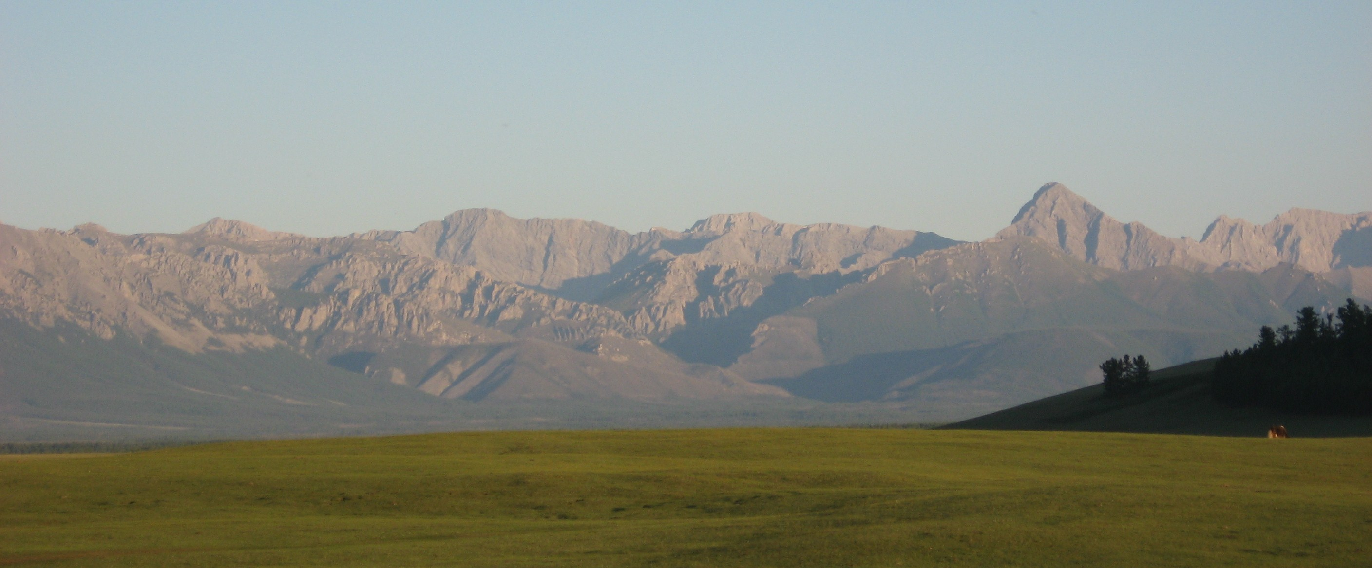 Horidol Saridag Mountains seen from the Darhadyn Hotgor, some km south of Deed Tsagaan Nuur (not to be confused with Dood Tsagaan Nuur). The steep mountain on the right, above that small group of trees, is the Delgerhaan. See also Image:DarhadynHotgor.JPG.